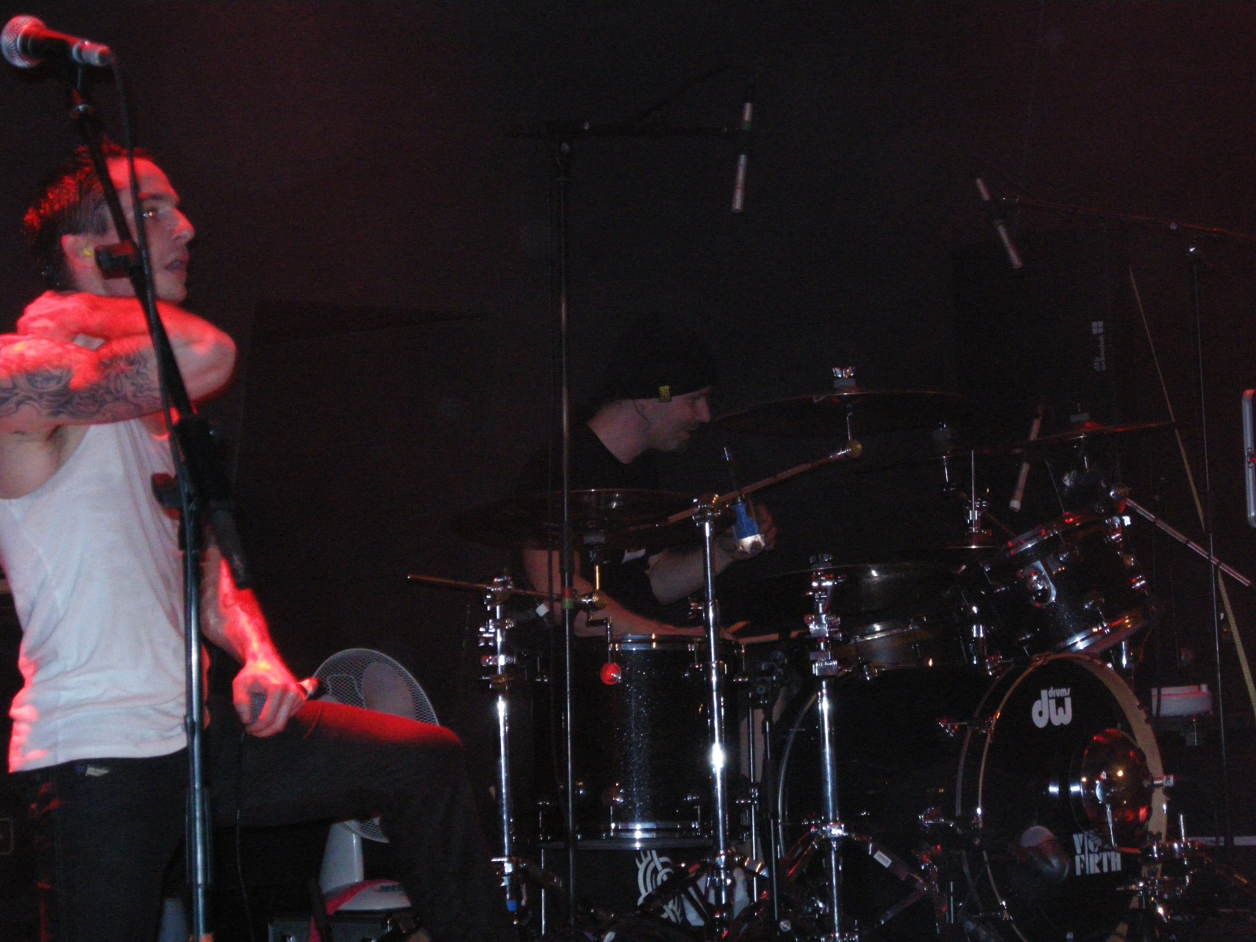 Singer Alexander Hagman Rajkovic and drummer Matte Modin of Swedish hardcore band Raised Fist at The Close-Up boat February 2011